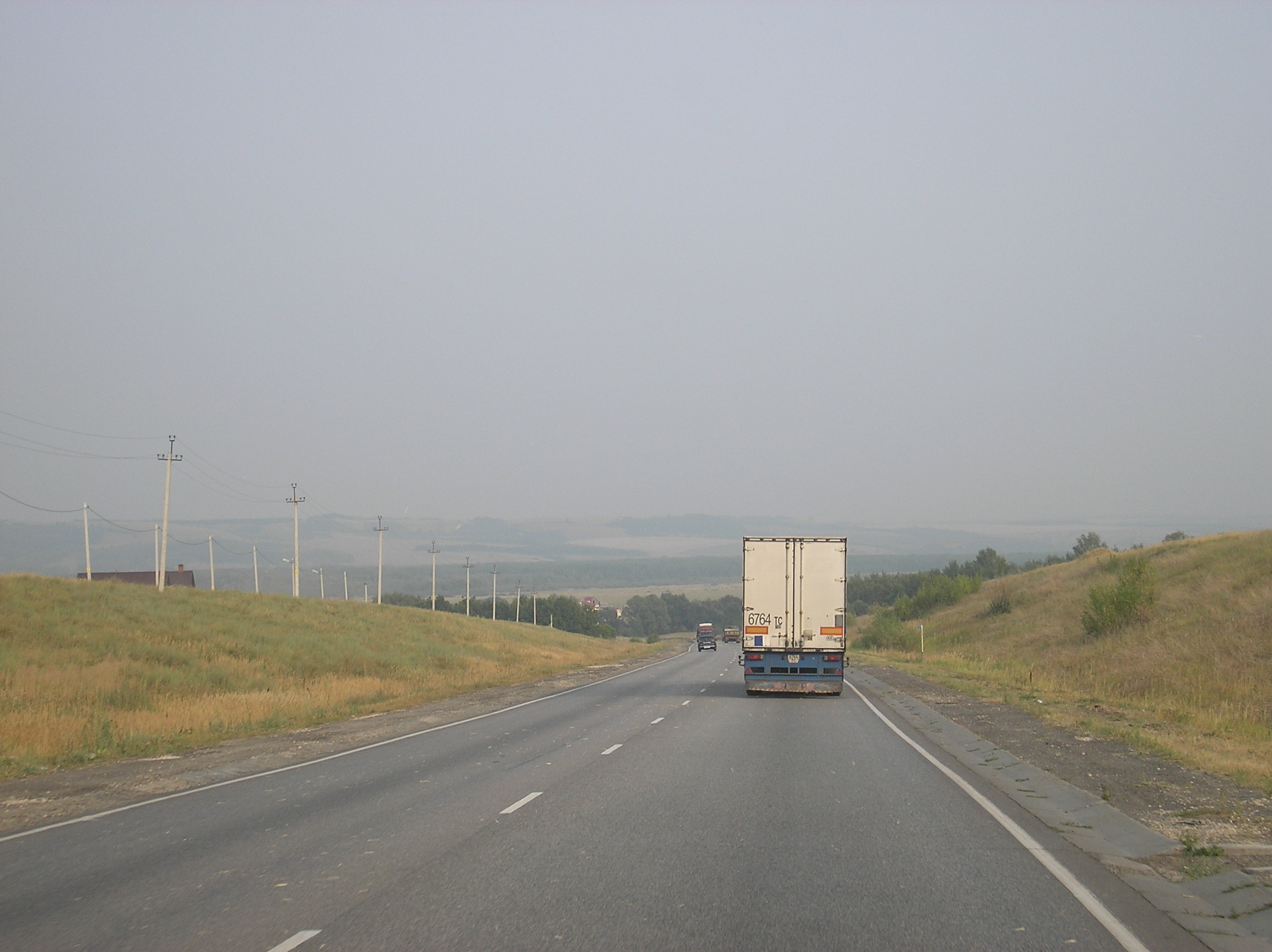 ТрассаМ7